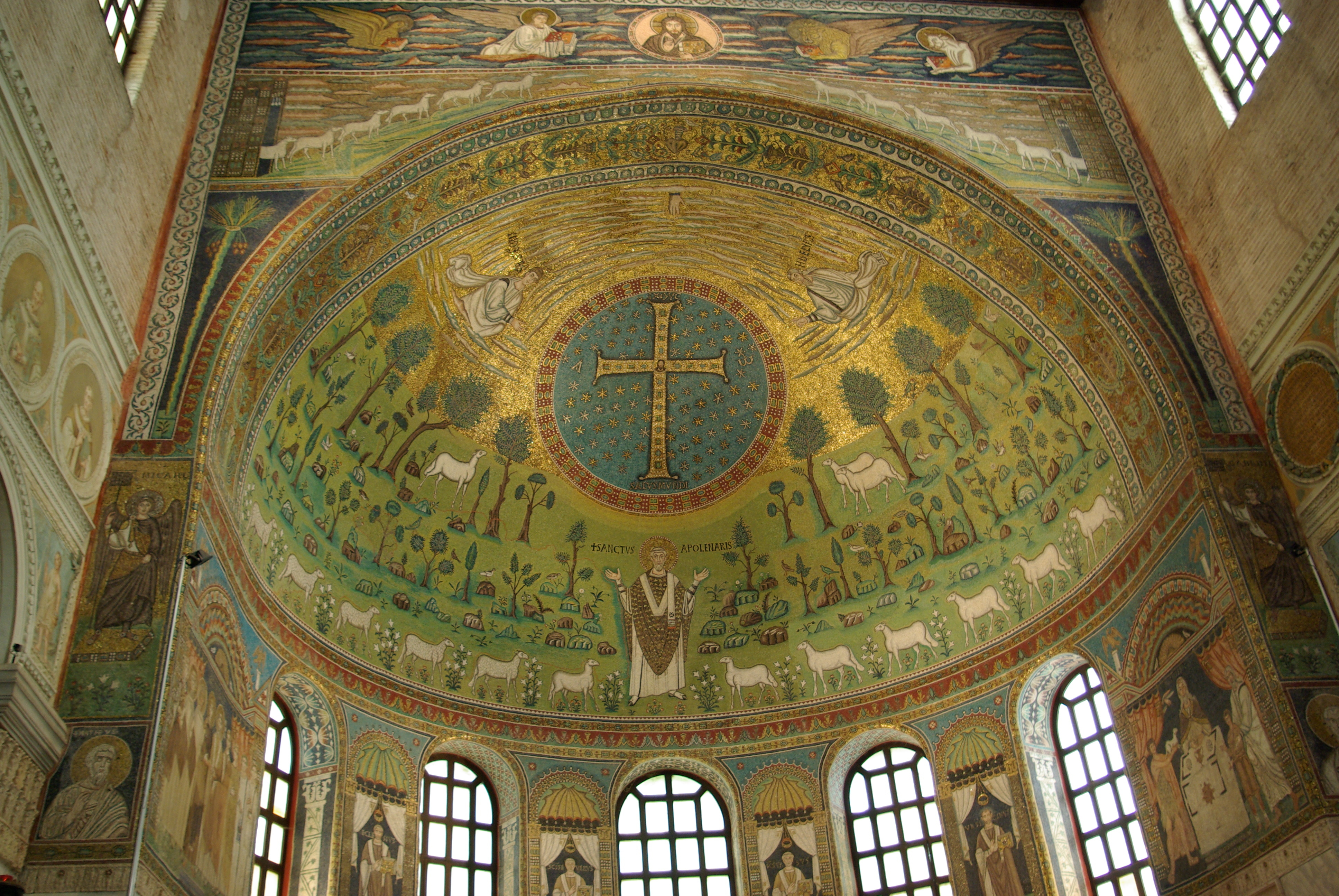 The 6th century Byzantine mosaic in the apse of the basilica of Sant'Apollinare in Classe (Ravenna, Italy)